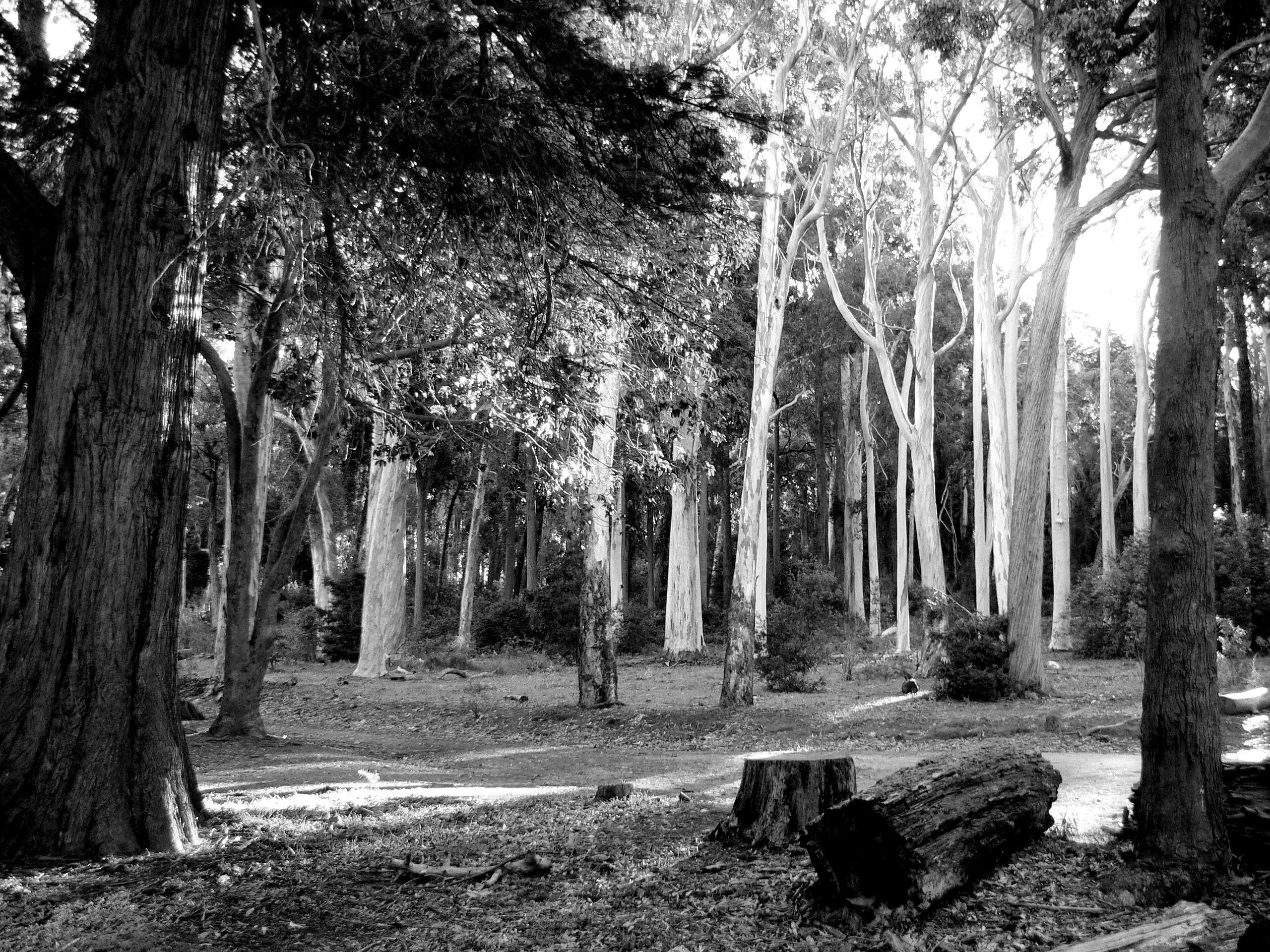 The arboretum is in the Tokai Forest, Cape Town, South Africa. Planted by Joseph Storr Lister in 1885. This media shows a South African Protected Site with SAHRA file reference 9/2/111/0017.